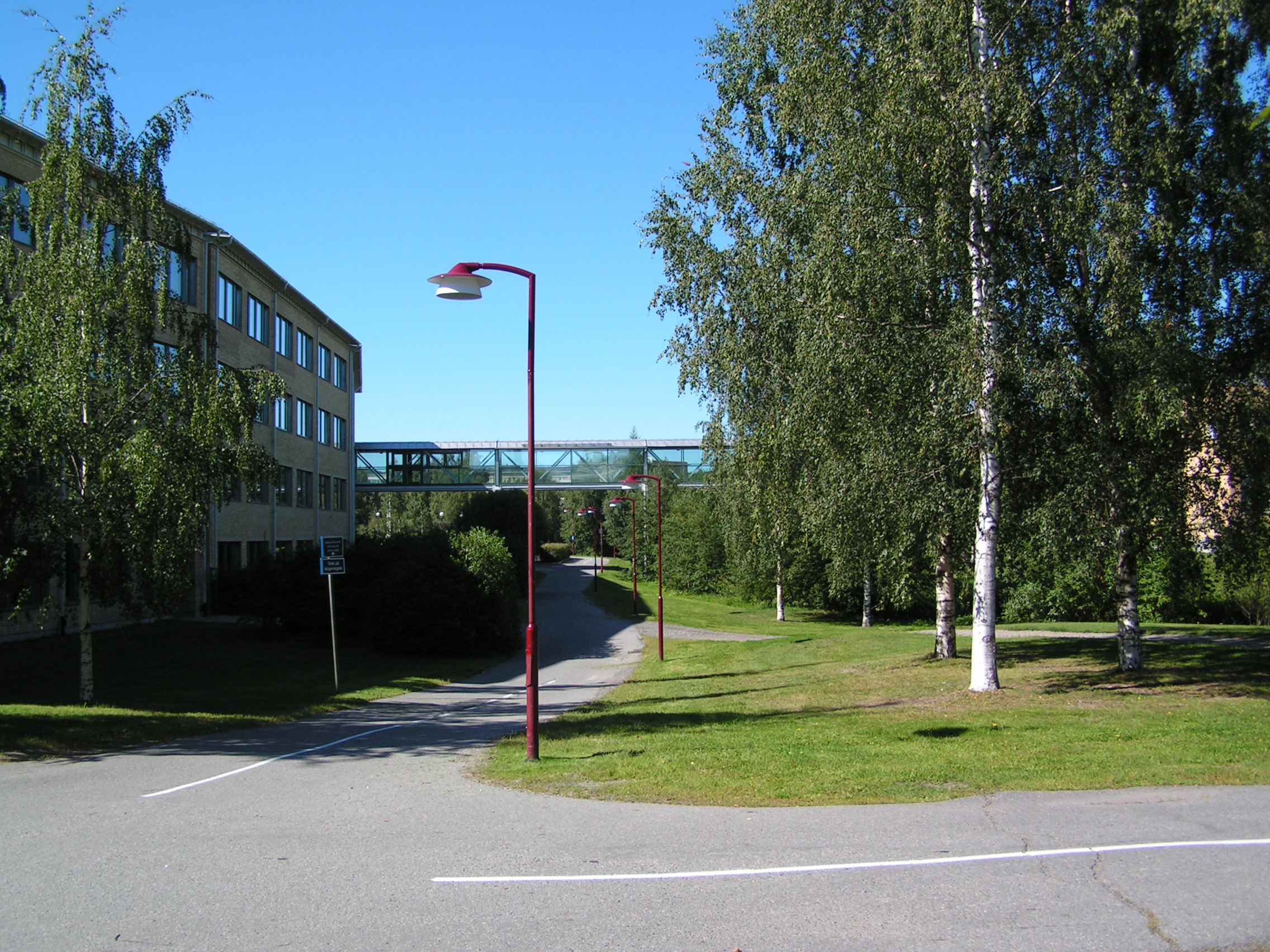 Bicycle lane at Umeå University Campus